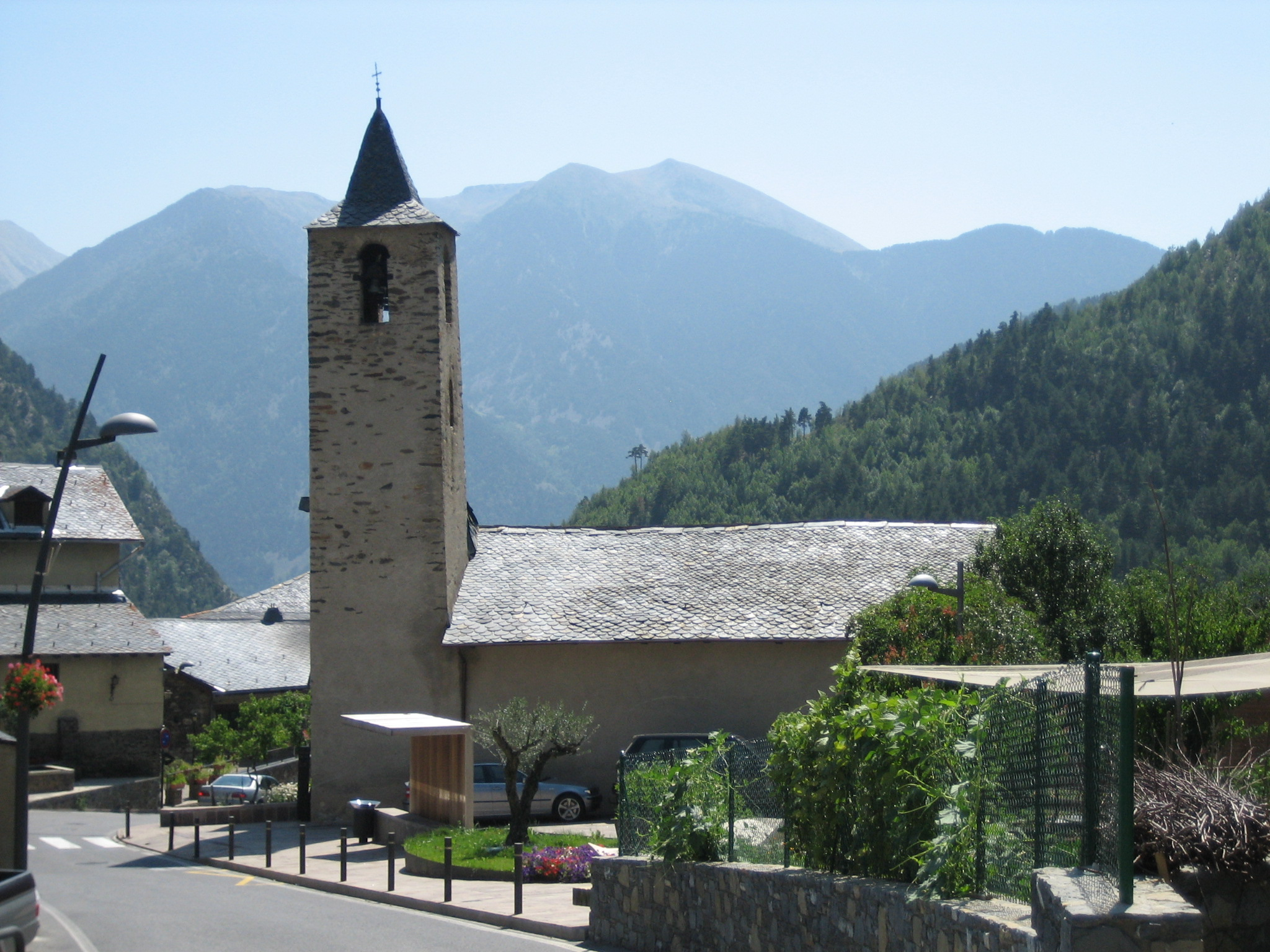 Saint John's Church, Sispony, La Massana